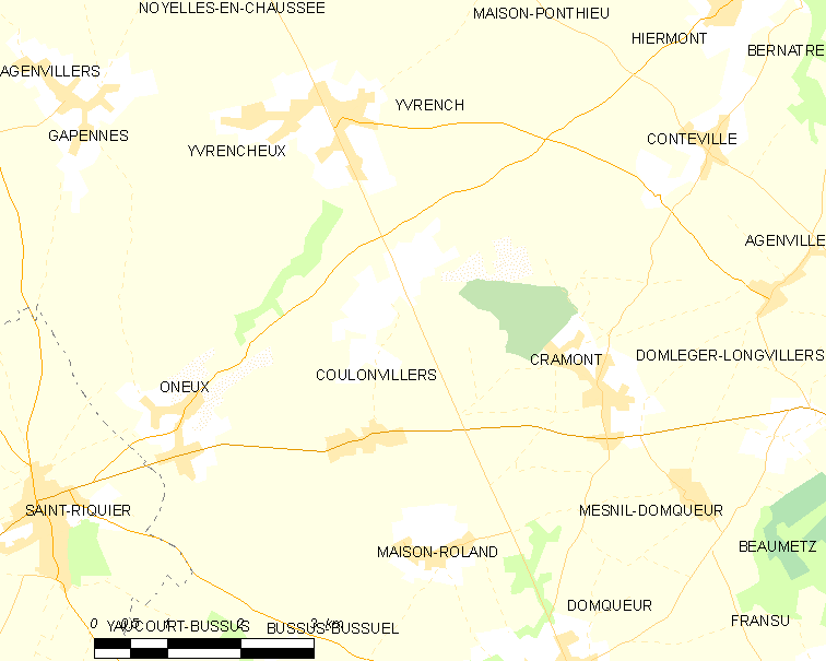 Map of French municipality Coulonvillers